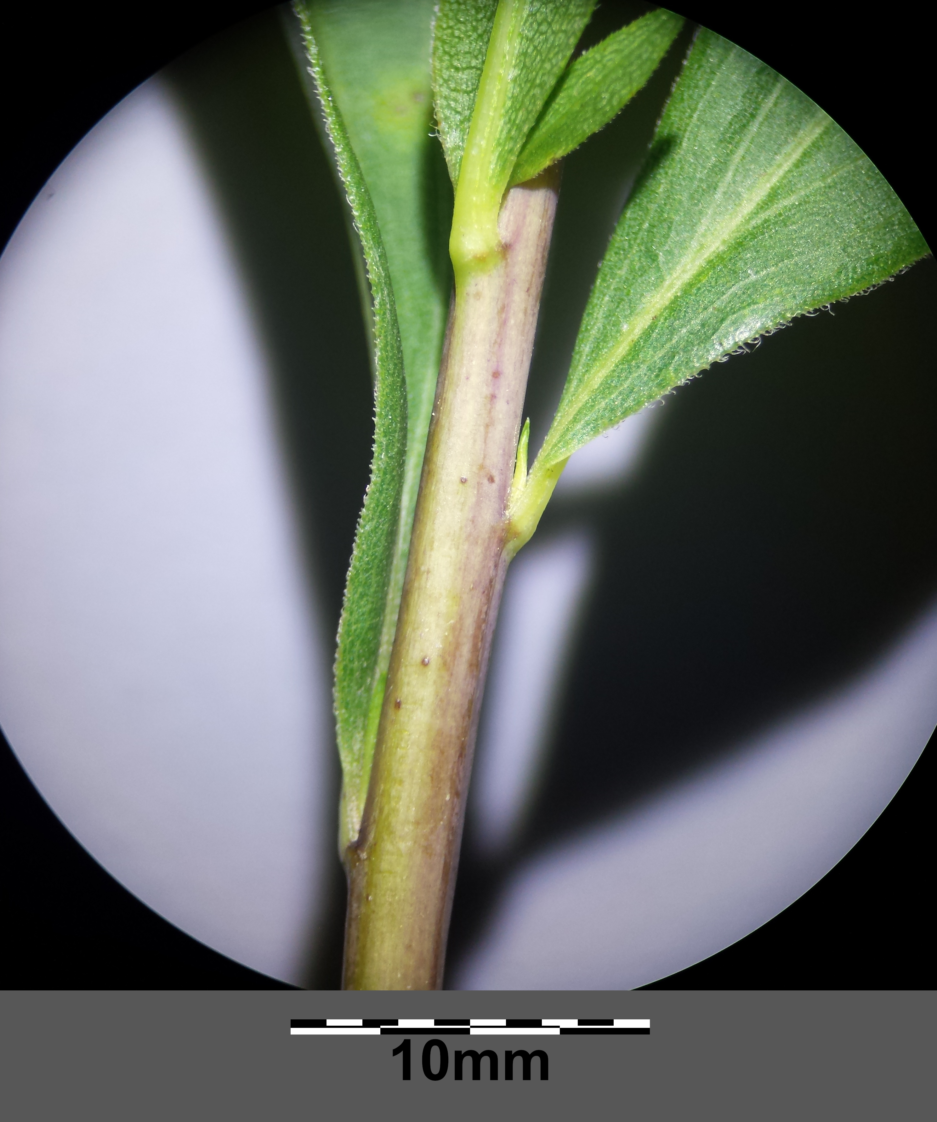 Glabrous stem Taxonym: Solidago gigantea (subsp. serotina) ss Fischer et al. EfÖLS 2008 ISBN 978-3-85474-187-9 Location: Veitsberg/Bisamberg, district Korneuburg, Lower Austria - ca. 320 m a.s.l. Habitat: fallow land